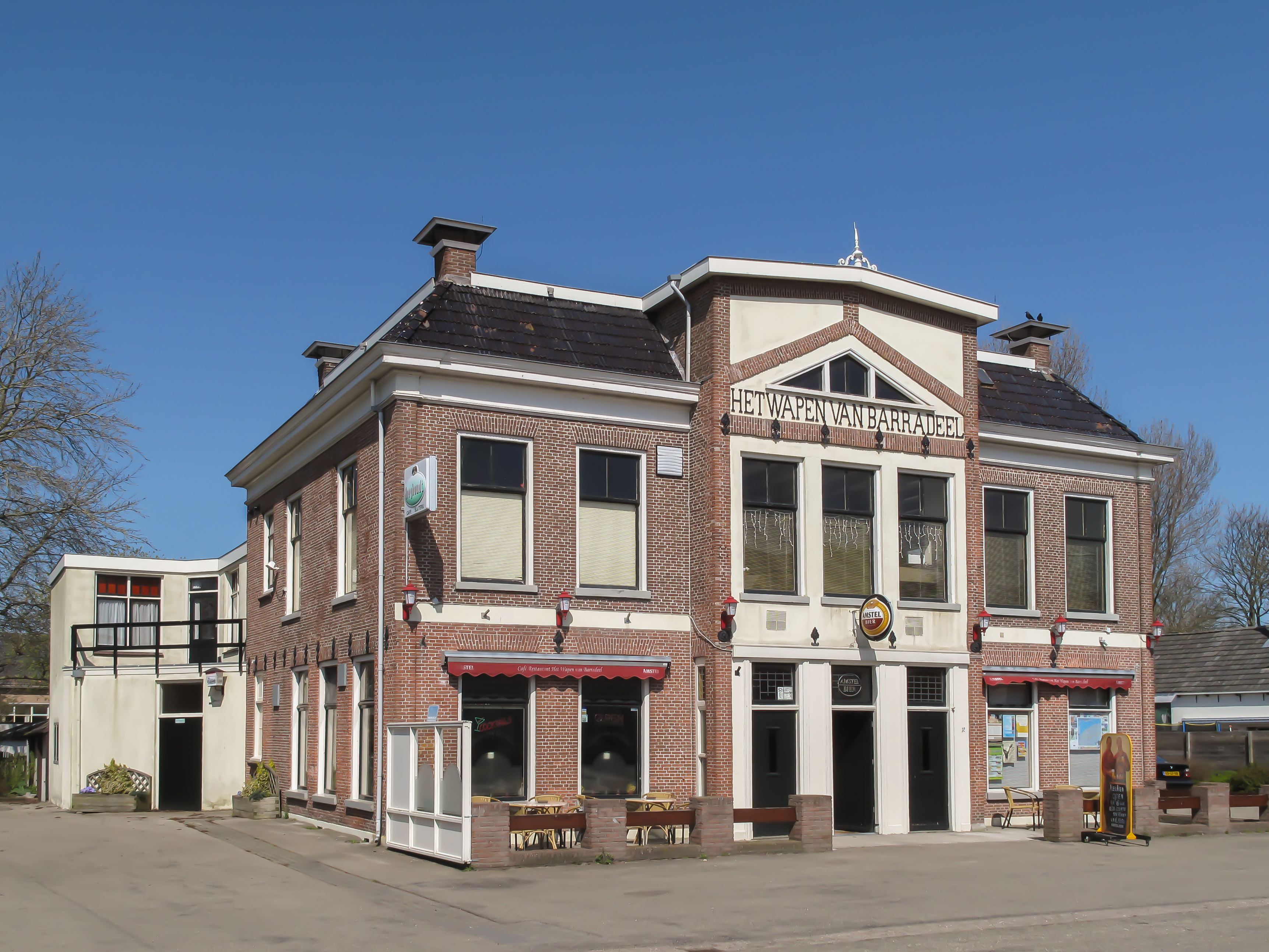 Tzummarum, restaurant and catering het Wapen van Barradeel